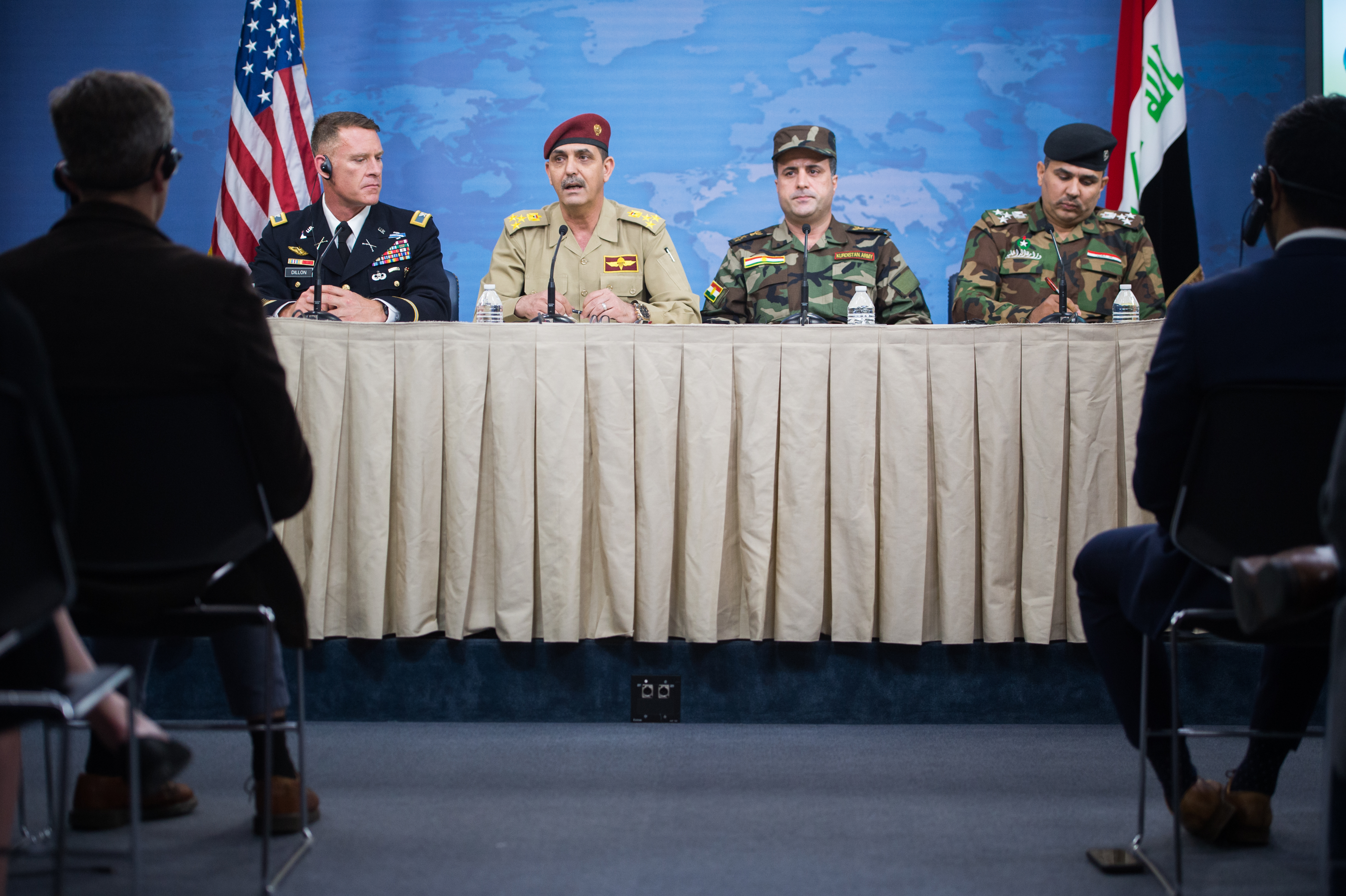 Operation Inherent Resolve spokesman U.S. Army Col. Ryan Dillon and spokesmen for the Iraqi Security Forces brief the media on the Liberation of Mosul in the Pentagon Press Briefing Room, Washington, D.C., July 13, 2017. (DOD photo by U.S. Army Sgt. Amber I. Smith)